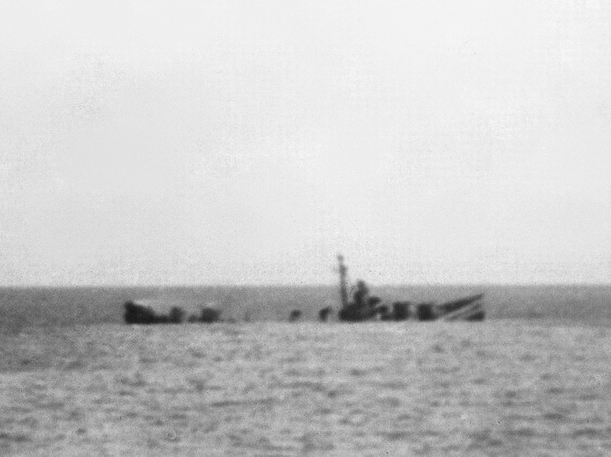 The U.S. Navy destroyer USS Corry (DD-463) sinking off Utah Beach, Normandy, France, on 6 June 1944. Corry was sunk bs 21 cm shells from the German Saint Marcouf (Crisbecq) battery.